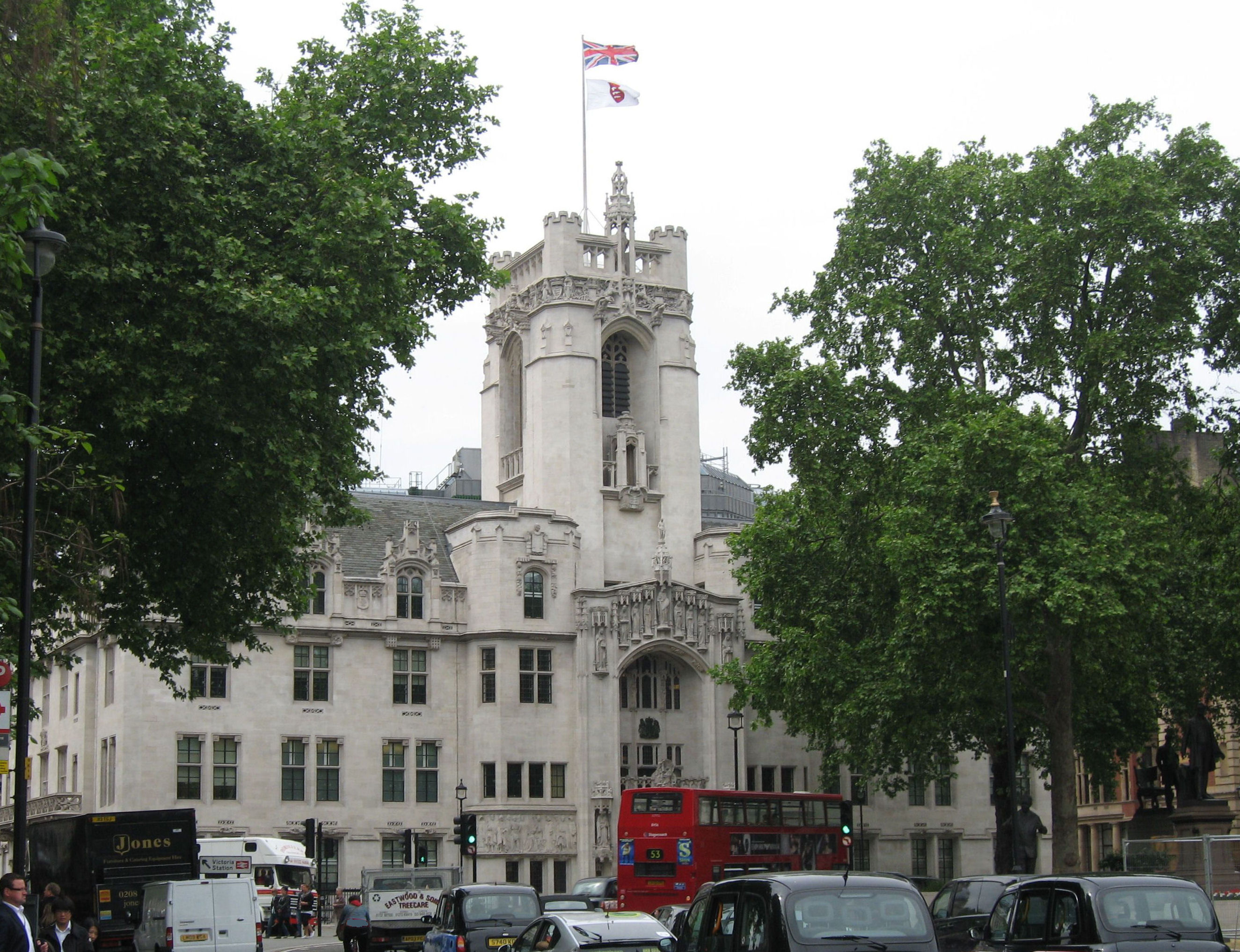 Middlesex Guildhall on 16 May 2011